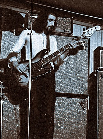 John McVie, Fleetwood Mac, March 18, 1970 Niedersachsenhalle, Hannover, Germany The Touring Band: Mick Fleetwood - Percussion, Peter Green - Lead Vocals/Guitar/Harmonica (left band in May), John McVie - Bass Guitar, Jeremy Spencer - Vocals/Guitar, Danny Kirwan - Vocals/Guitar